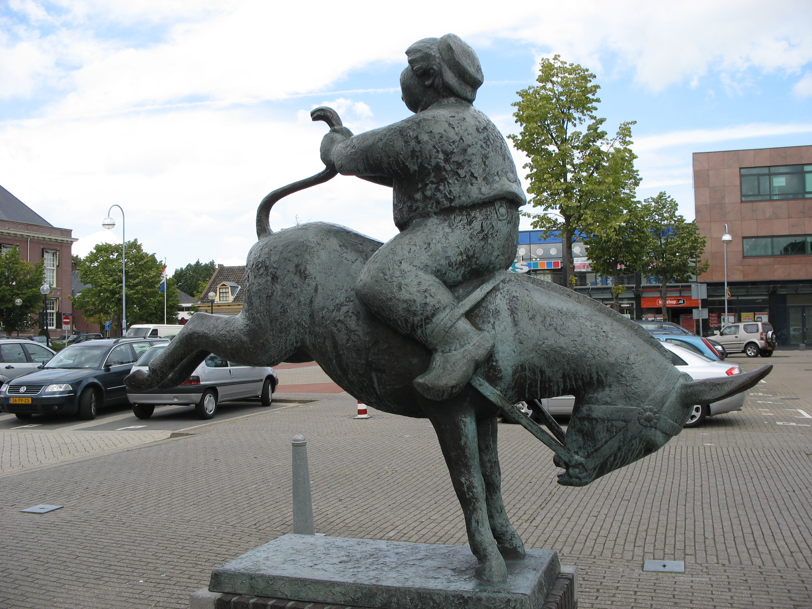 Statue in Hoofddorp, The Netherlands. Dik Trom. Dik Trom is a character in a childrens book. He is said to have lived in Hoofddorp. Date of statue: 1973. Artist: Nico Onkenhout.